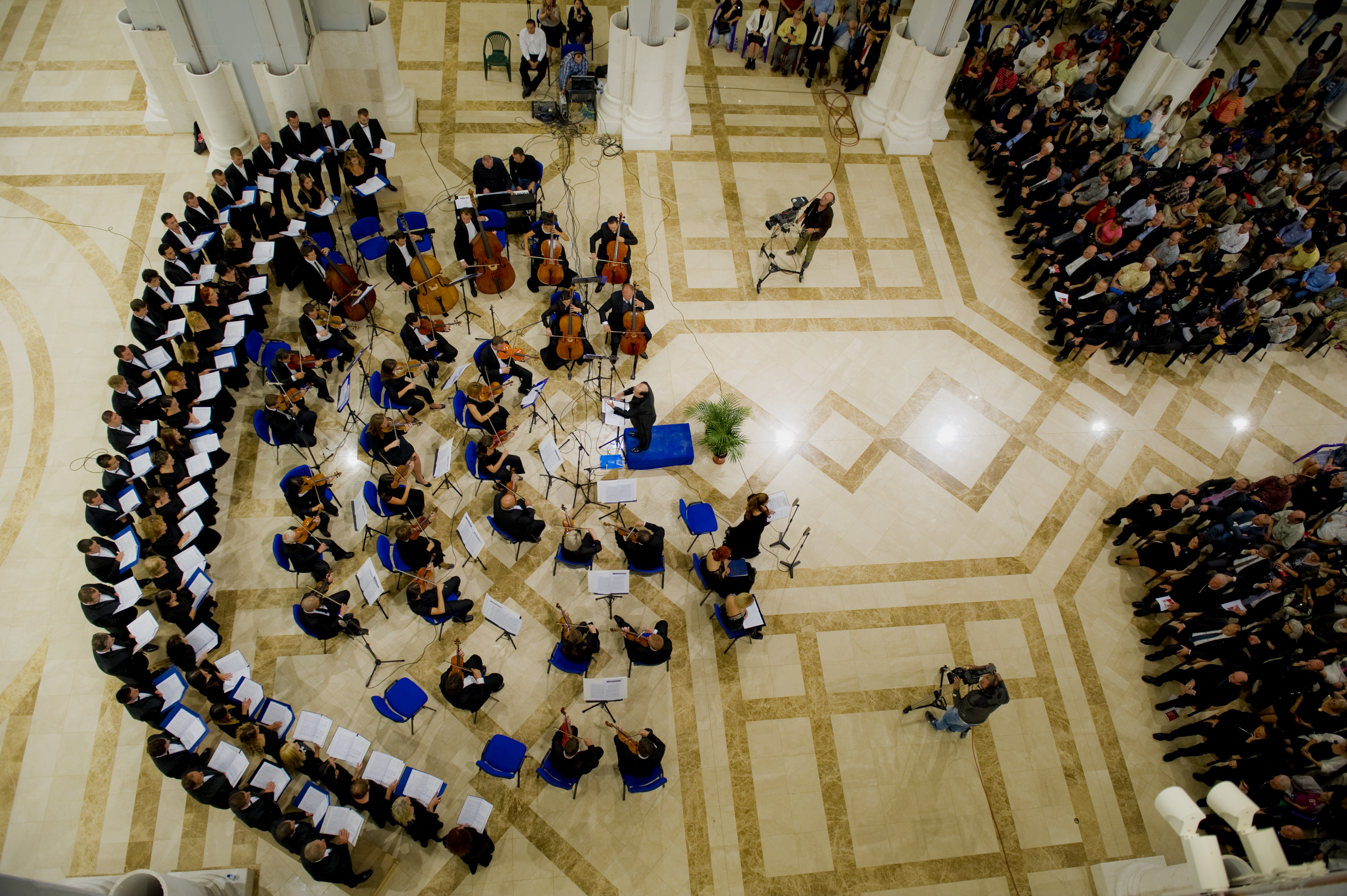 koncerti ne Katerdralen e Prishtines